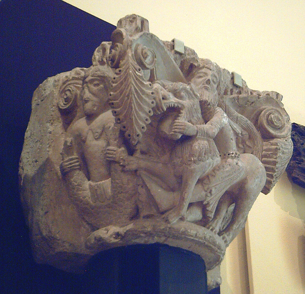 Romanesque capital from the churh of Santa María la Real monastery, in Aguilar de Campoo (Palencia, Spain). Relief at the right shows Samson fighting with the lion. At the left, a two-tailed mermaid.